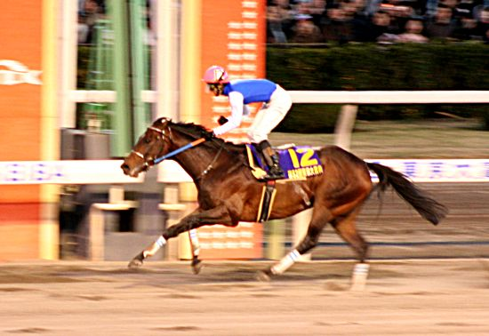 Blue Concold (horse)